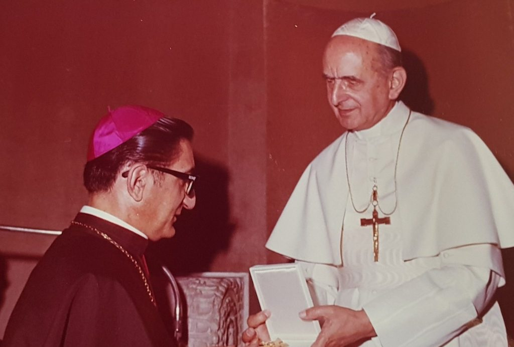 Mons. Rovida and Pope Paul VI